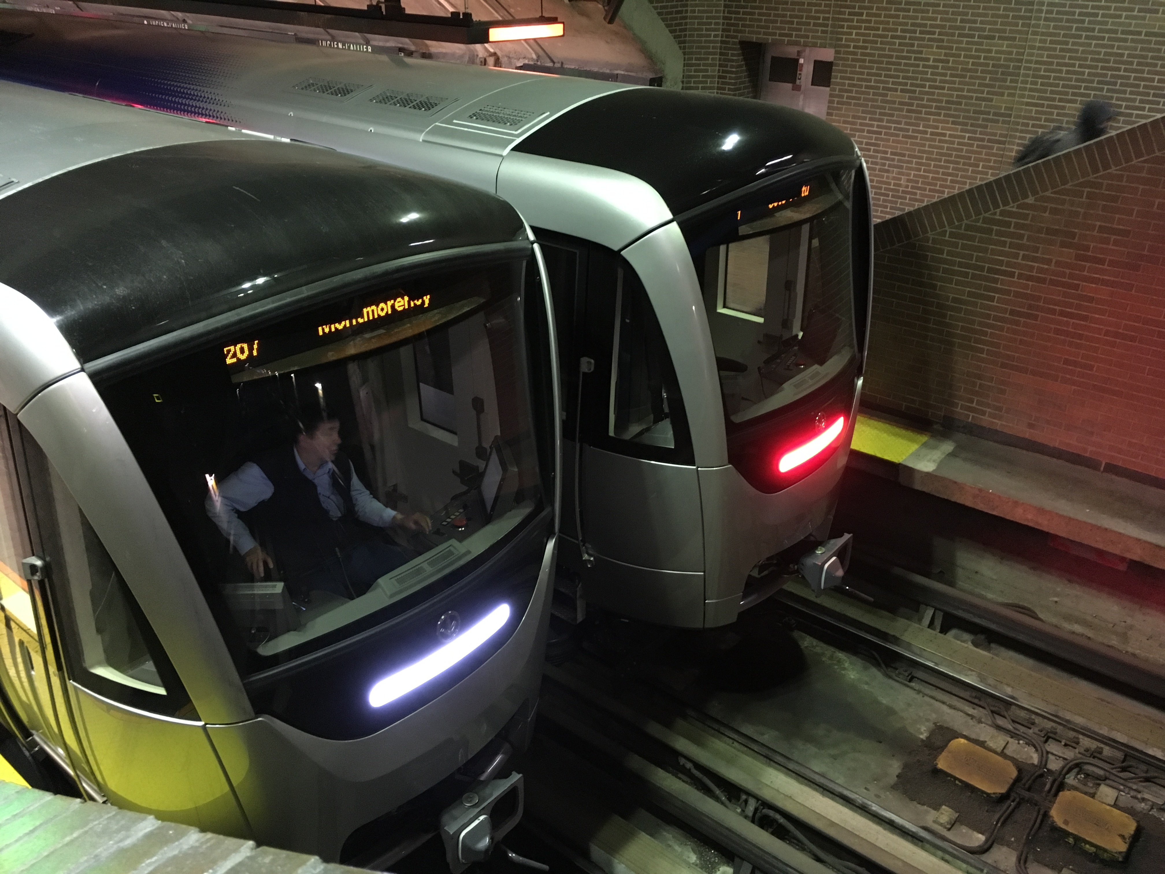 Two MPM-10 trains of the Montreal Metro.